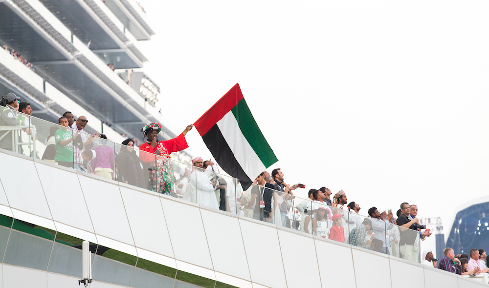 Al Tayer Motors | 2014 Dubai World Cup